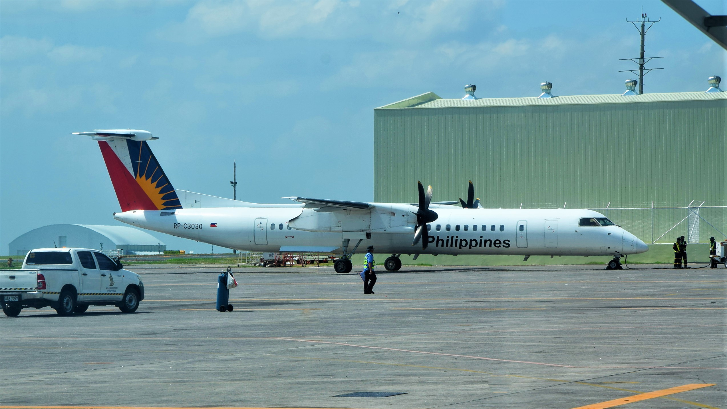 PAL Express Q400 spotted at Clark International Airport. (C) JOSEPH MARC SALAS